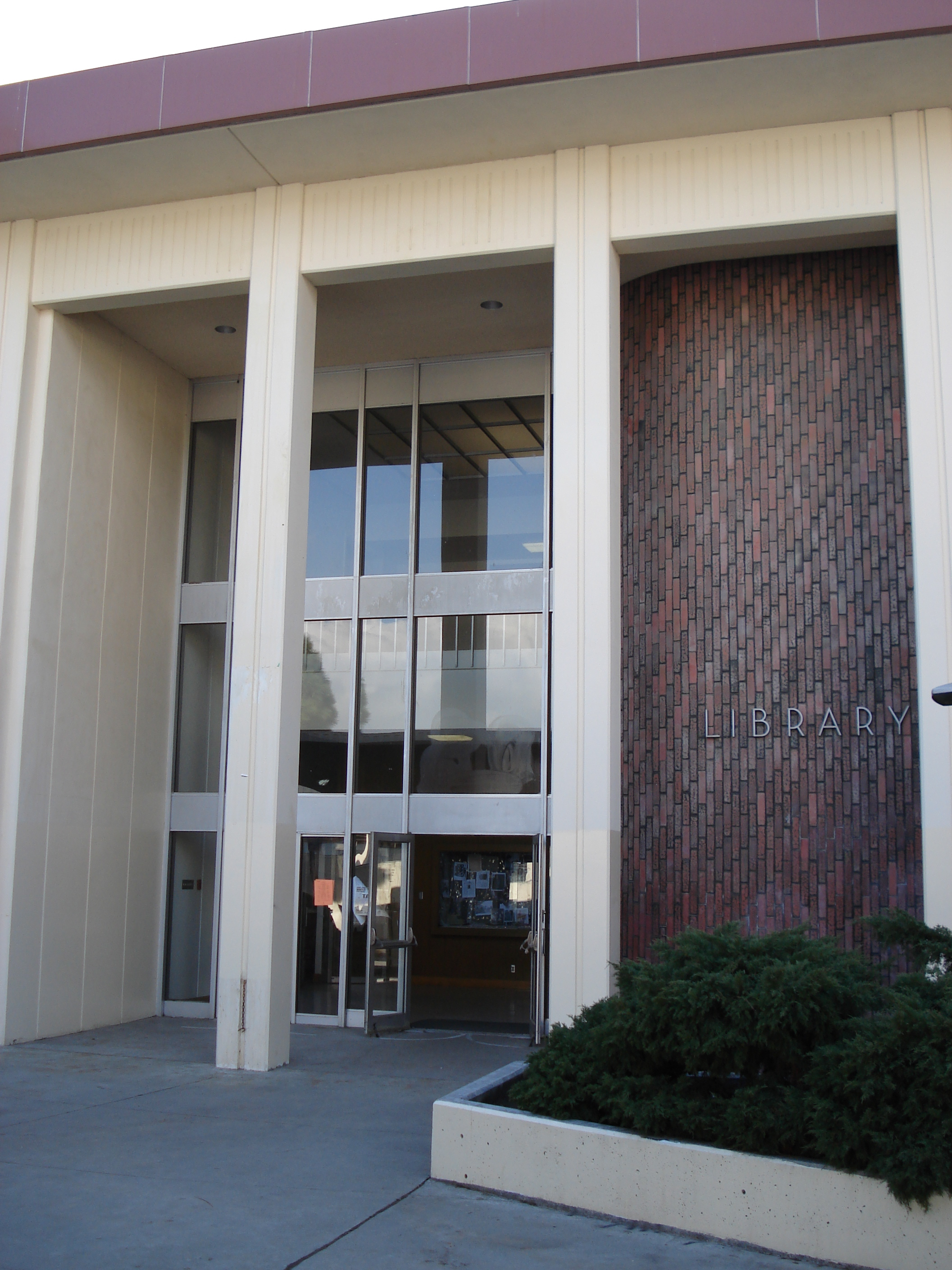 Entrance to the Library building (built 1970) at Torrance High School, located in Torrance, southwestern Los Angeles County, California. The library occupies the ground floor, and English classes and TV/Video Production classes are held in large classrooms on the second floor. Credits I, User:Zen., took this picture at Torrance High School on January 31, en:2007.